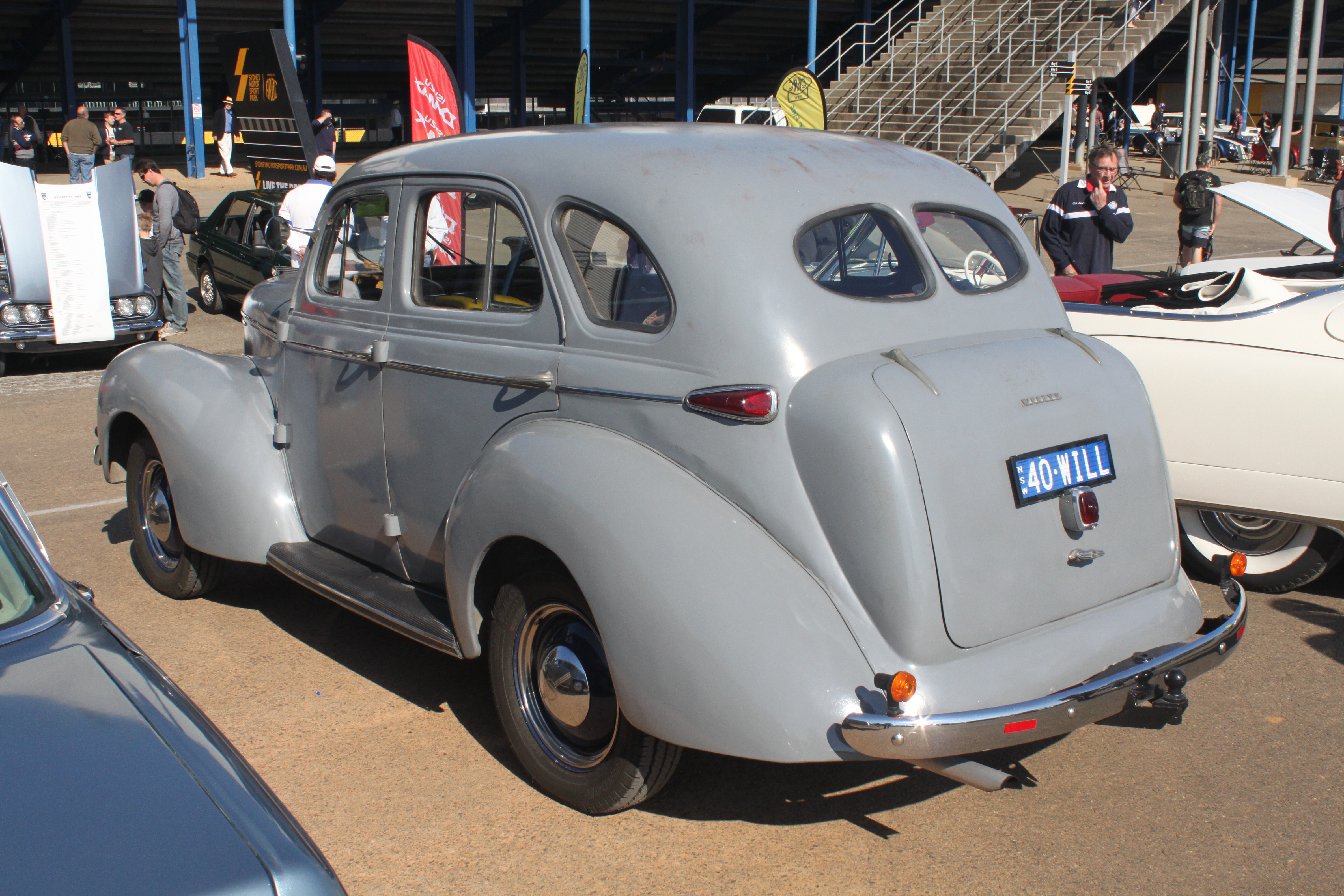 1940 Willys Americar?